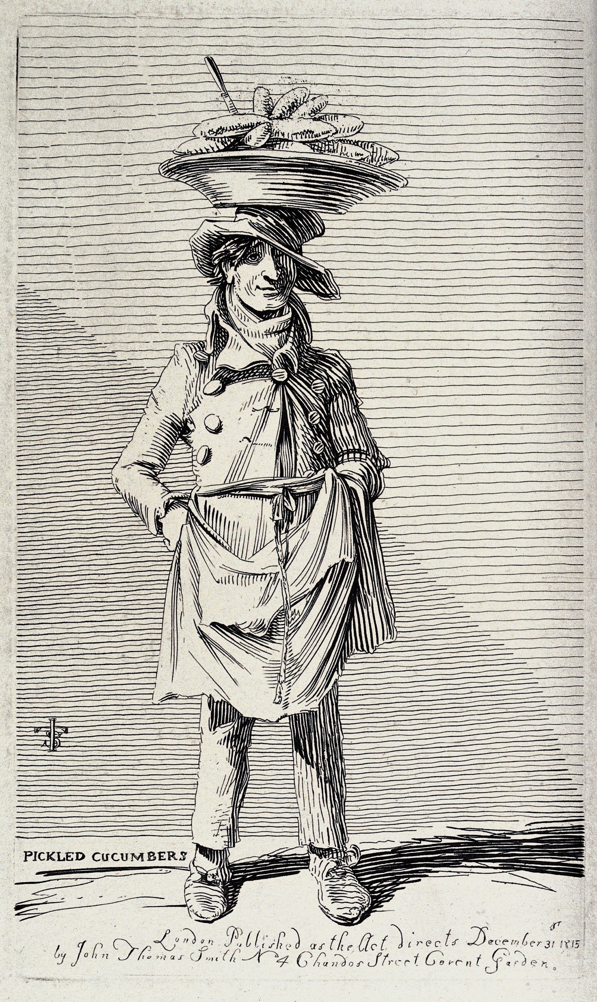 An itinerant salesman selling pickled cucumbers from a large plate he balances on his head. Etching by J.T. Smith, 1815. Iconographic Collections Keywords: John Thomas Smith